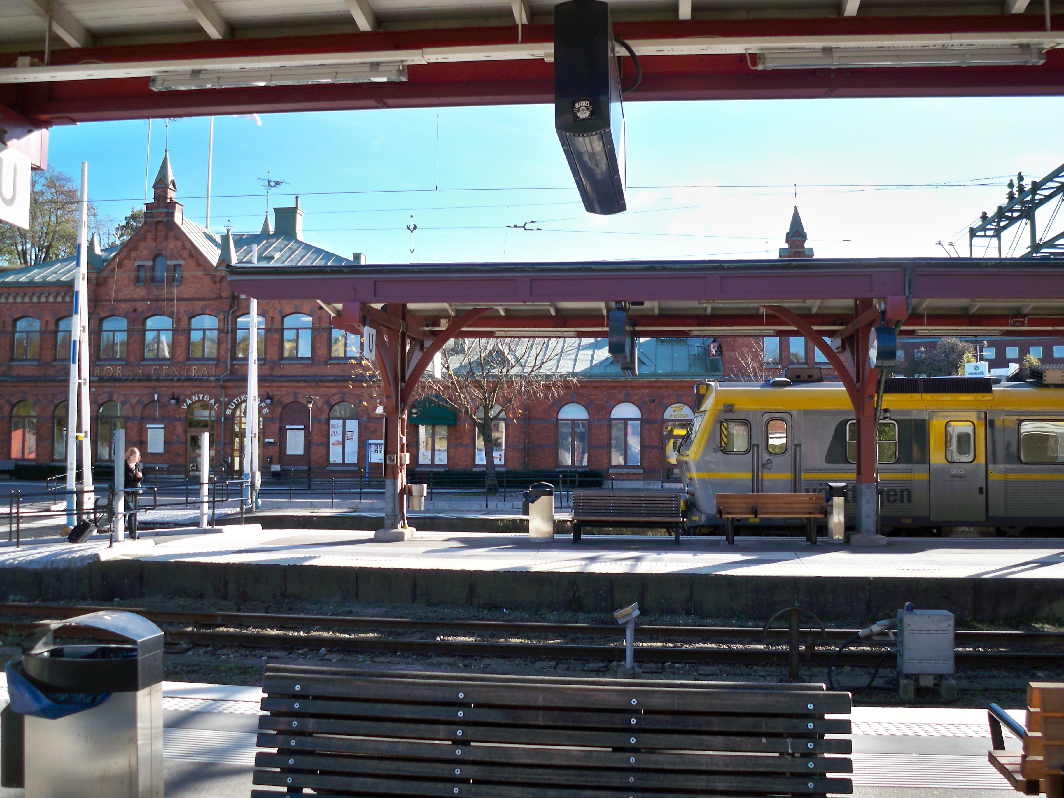 Borås train station platforms.